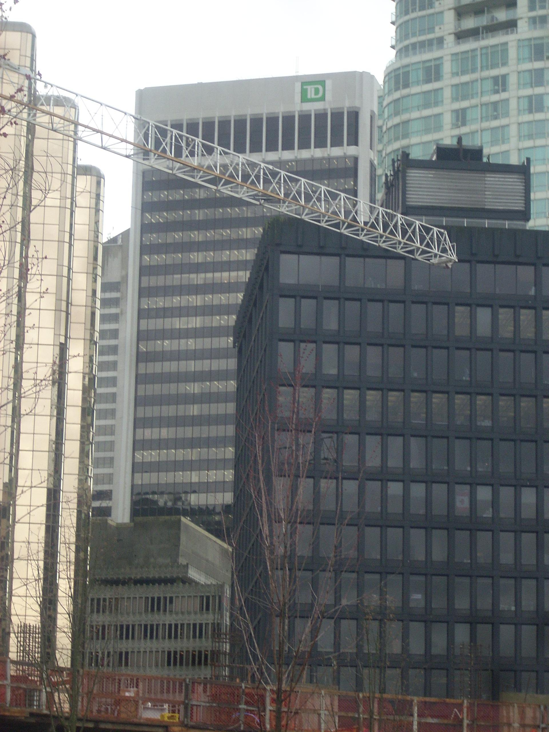 4 Bentall Centre photographed in Vancouver, British Coumbia, Canada at the 2010 Winter Olympics.